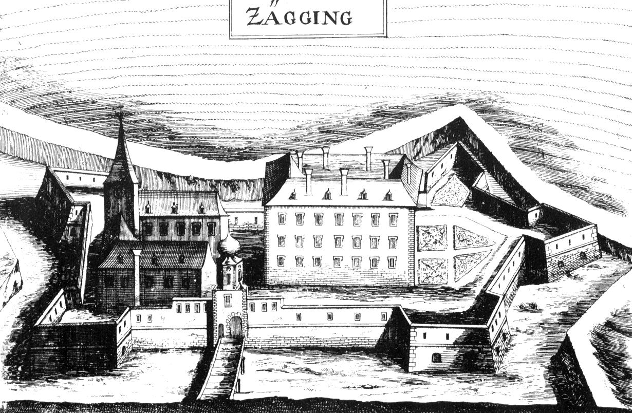 Castle of Zagging, build in 11. and 12. century. drawing from M. Vischer 1674